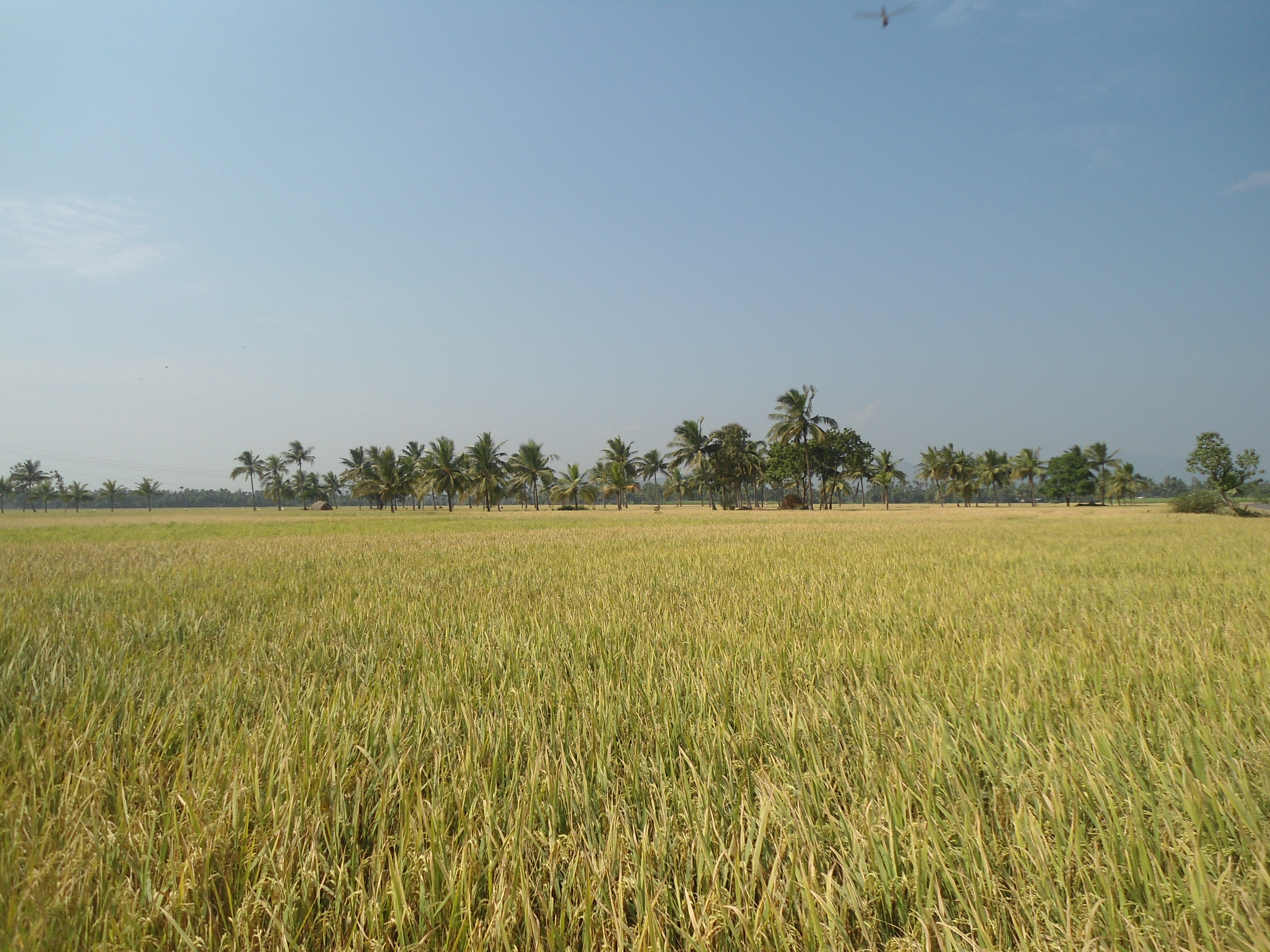 Paddy Fields at Kondakarla Village, Visakhapatnam district